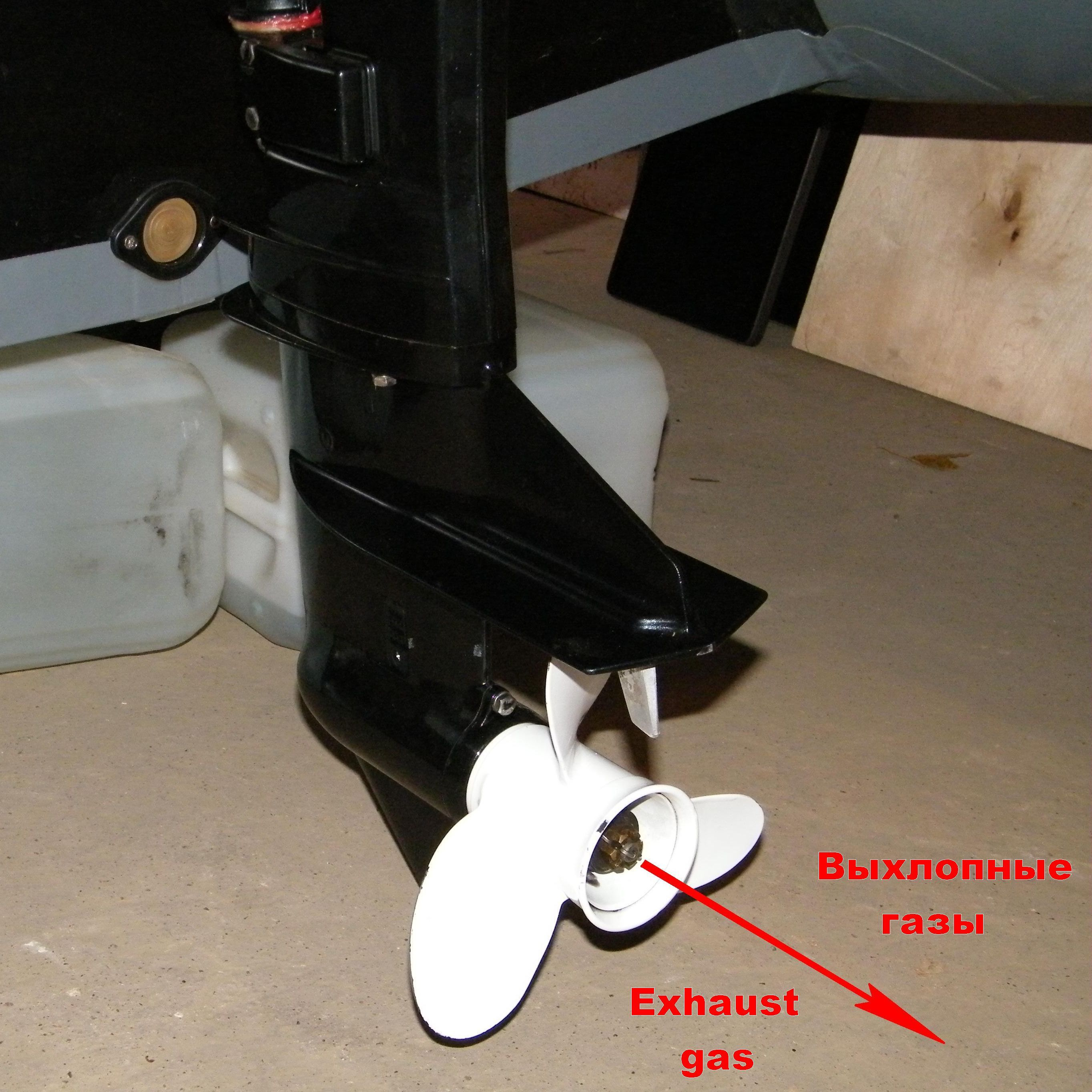 Outboard motors